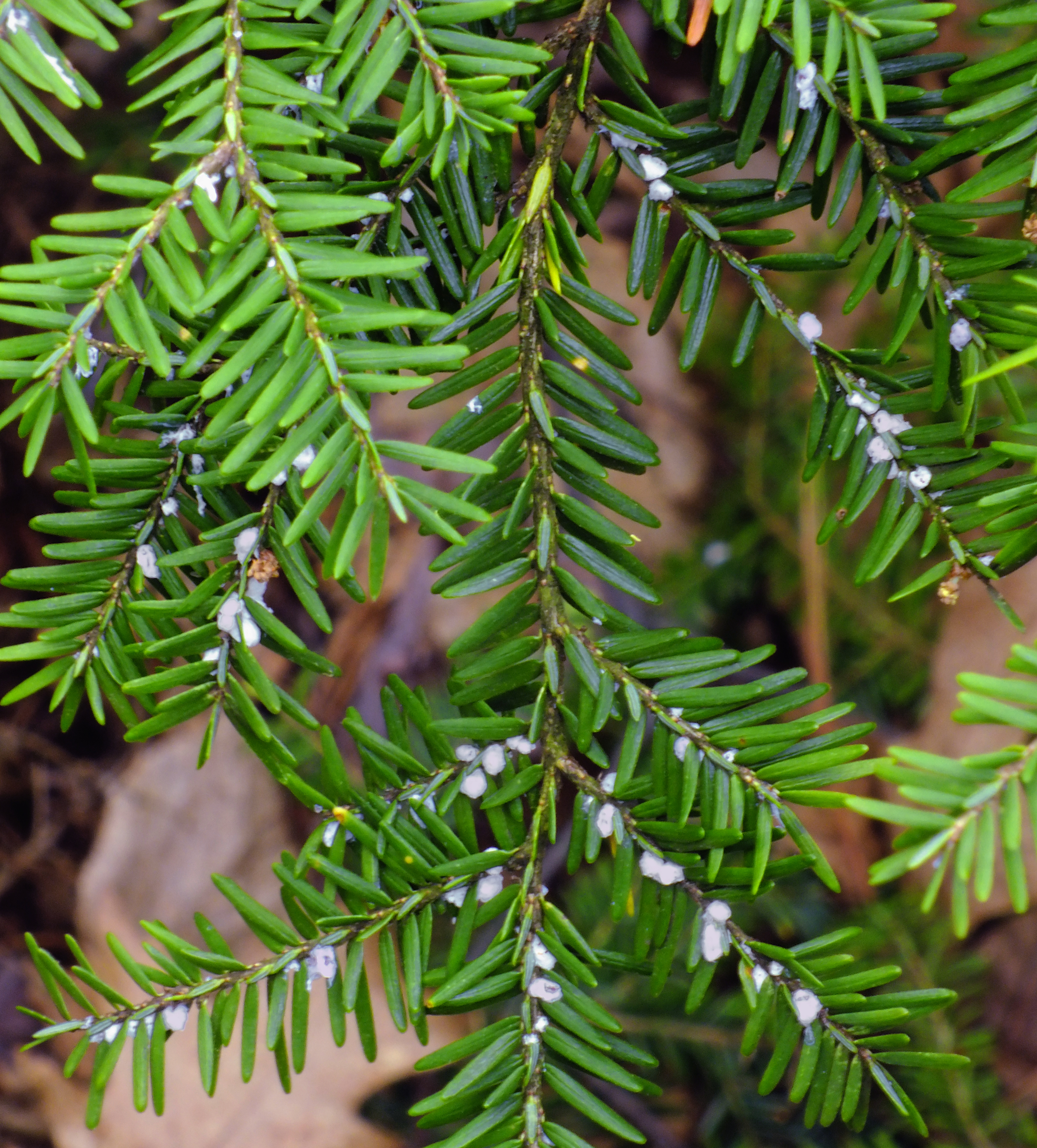 Hemlock woolly adelgid (Adelges tsugae), Clinton County, within the Mount Logan Natural Area of Bald Eagle State Forest. The hemlock woolly adelgid, an exotic insect pest, has wreaked havoc on forest and stream ecosystems across eastern North America. In north-central Pennsylvania, adelgid infestations are unusual at this high elevation (2108 feet). The rocky terrain and thin soil have probably made the hemlocks here especially vulnerable.